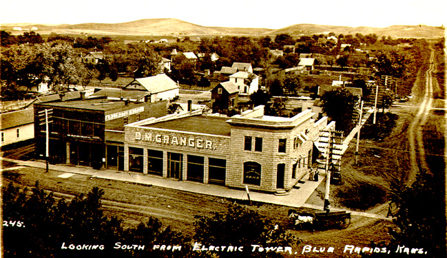 "Looking south from electric tower. Blue Rapids, Kans." This historical photograph shows the south side of the town square of Blue Rapids, Kansas around the turn of the 20th century, when the streets were still unpaved. The stone D. M. Granger store is prominent on the corner of Main St. where the bank exists today. On the left is the brick Arlington House, which was quite an exclusive hotel in its day. It had a billiards table and the men's club met there. South of the Granger store was a livery and a wheel shop. Capital Bluff, the highest point in this part of the county, is visible in the background.